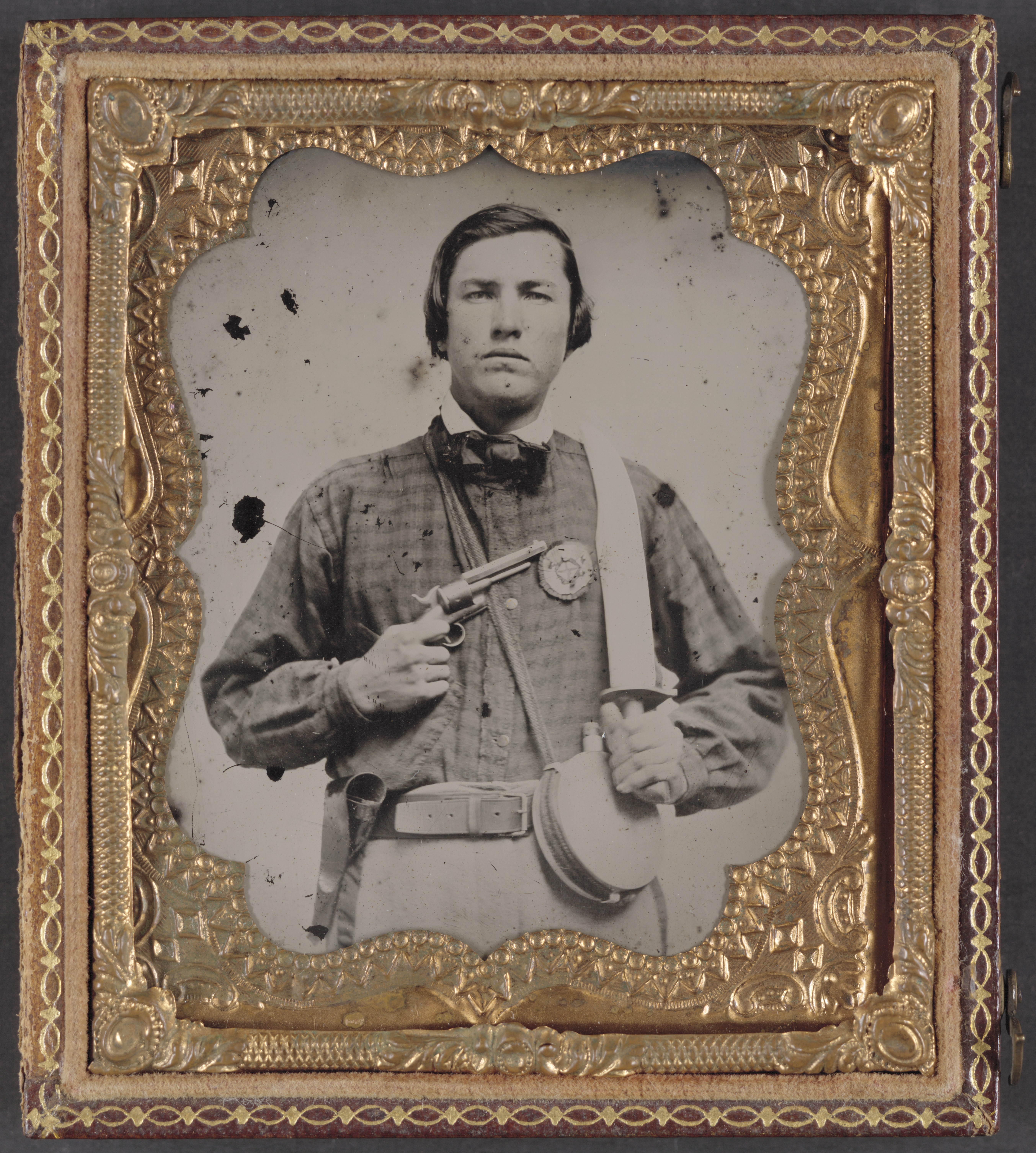 Title: Private David C. Colbert of Company C, 46th Virginia Infantry Regiment, with secession badge, canteen, pistol, and Bowie knife Abstract/medium: 1 photograph : sixth-plate ambrotype ; 9.3 x 8.2 cm (case)